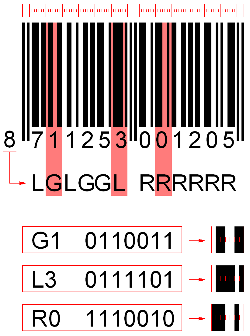 Decode EAN-13